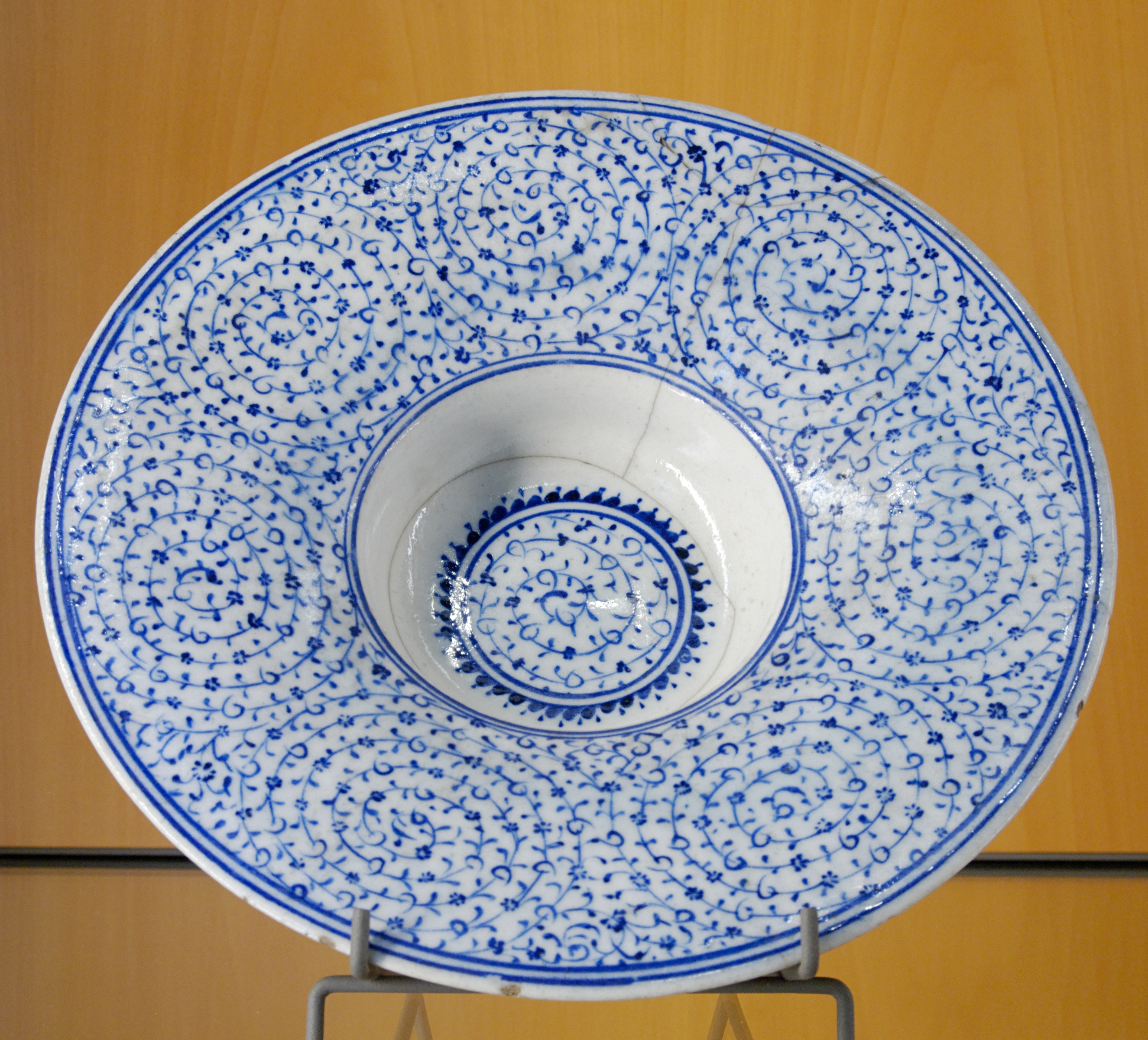 Tondino (Golden Horn ware) with blue and white spiral decoration. Fritware with painted decoration on slip, under lead glaze, İznik ceramic.